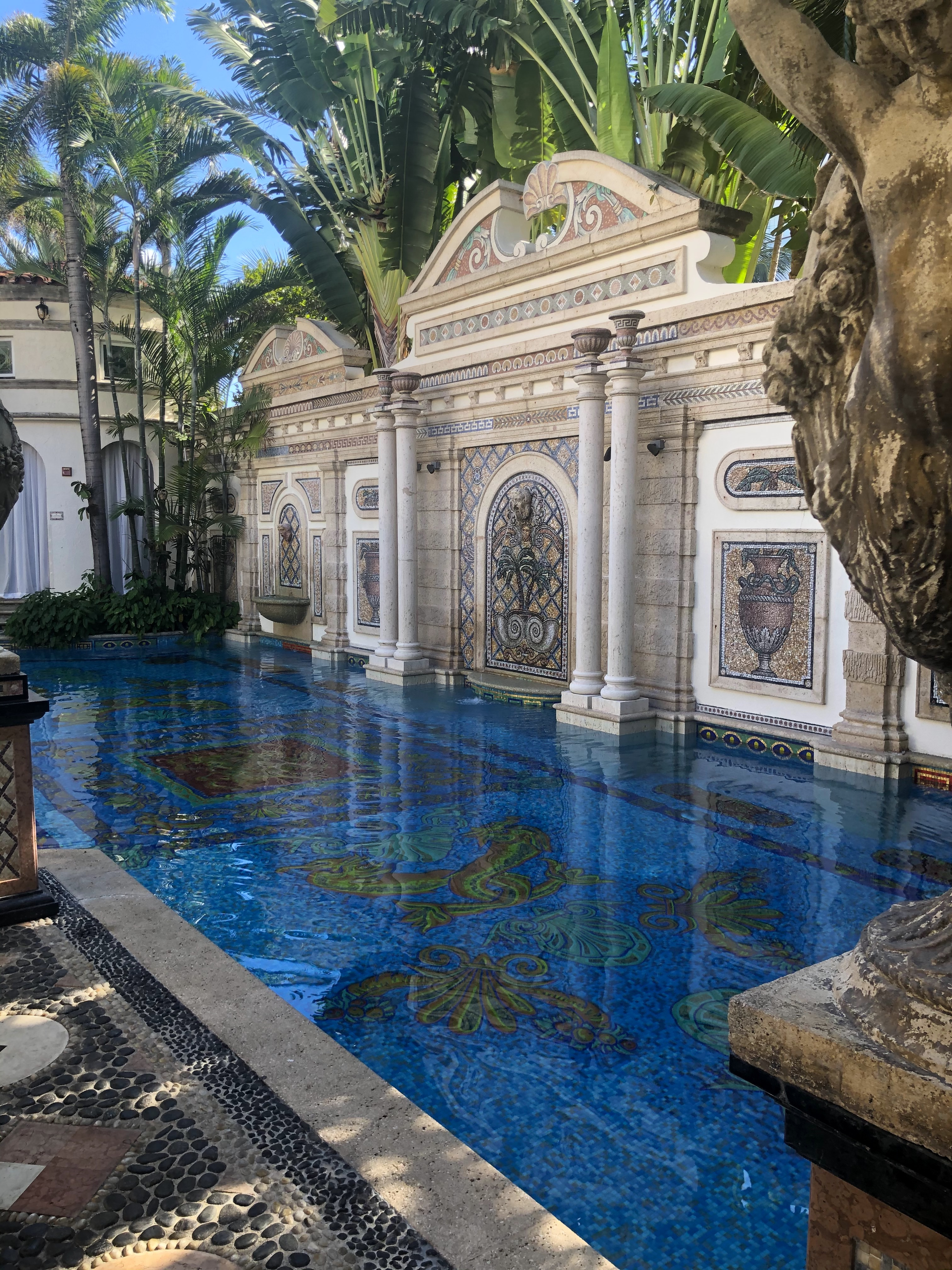 Casa Casuarina's pool in December 2019.